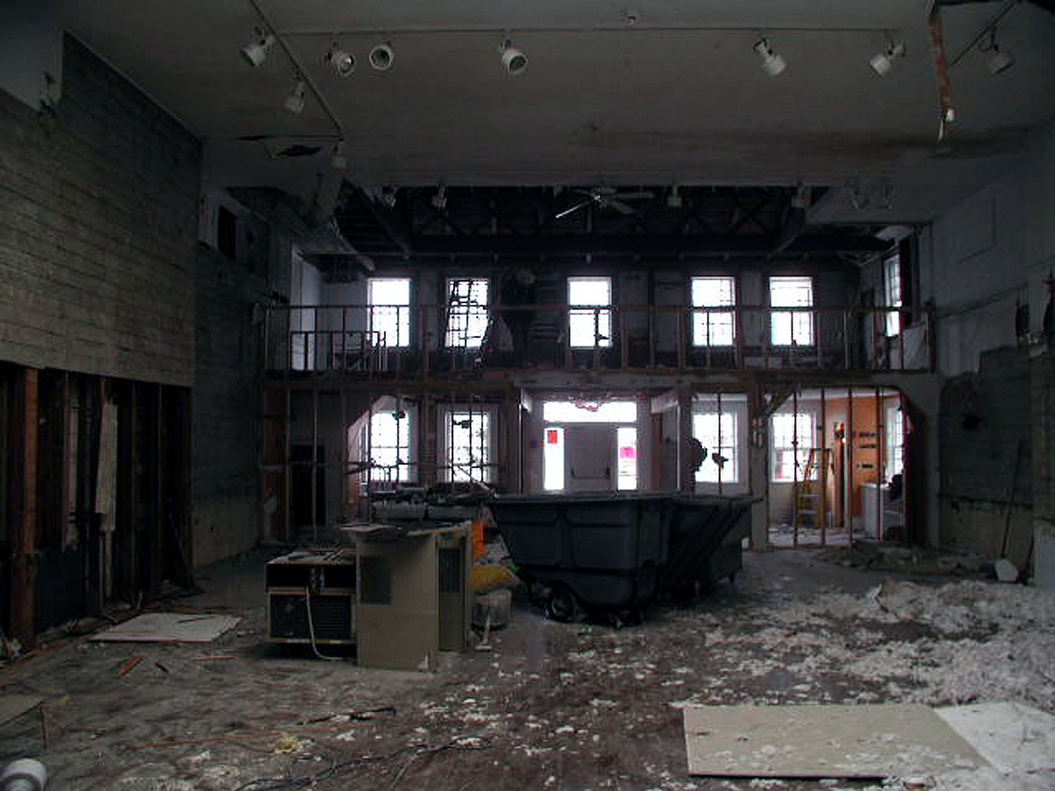 The gutted Captain's House, mid-renovation.